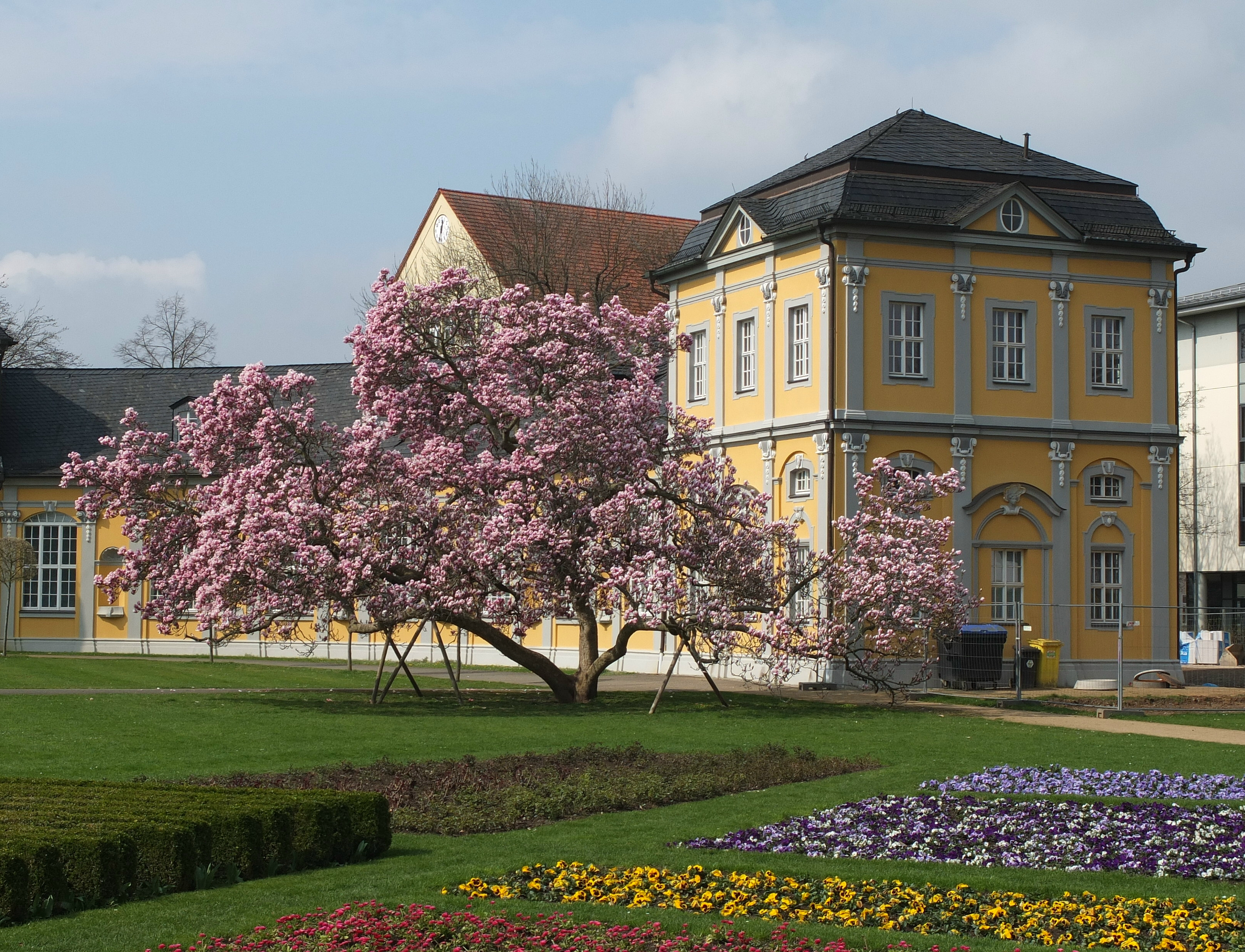 Magnolia tree in full blossom, Orangerie, Gera (Germany)